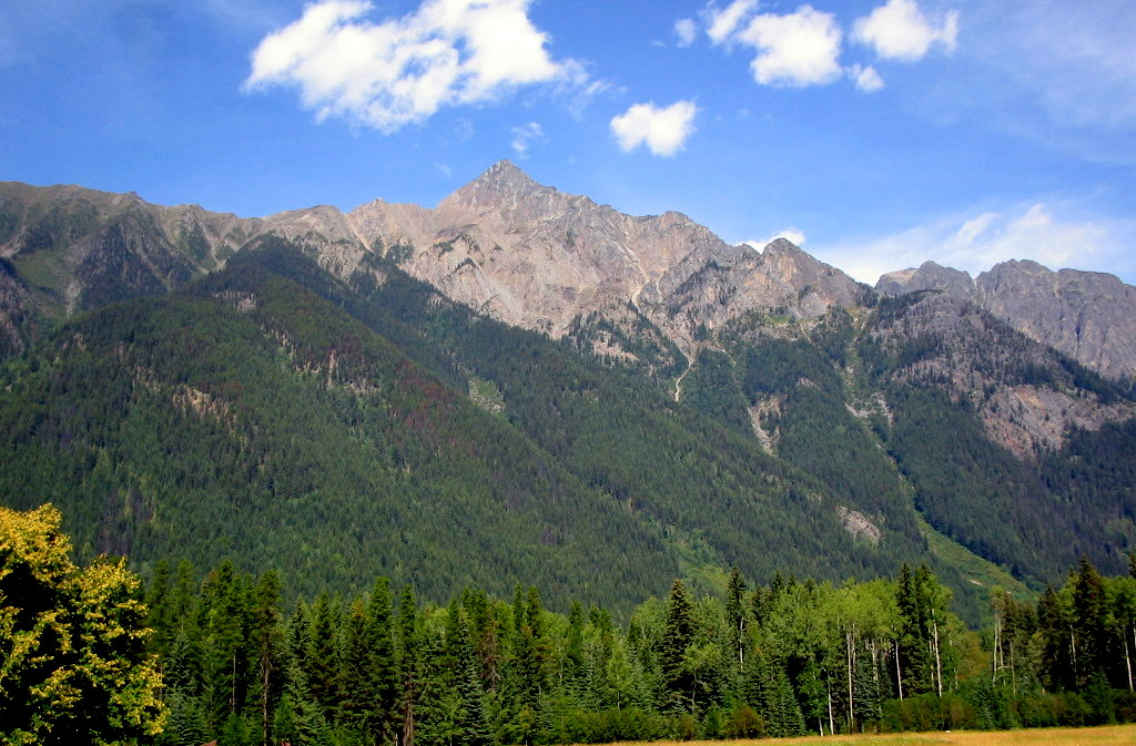 Southwest face of Cinnamon Peak (Little Grizzly) - (2,727m/8,947ft), British Columbia, Canada